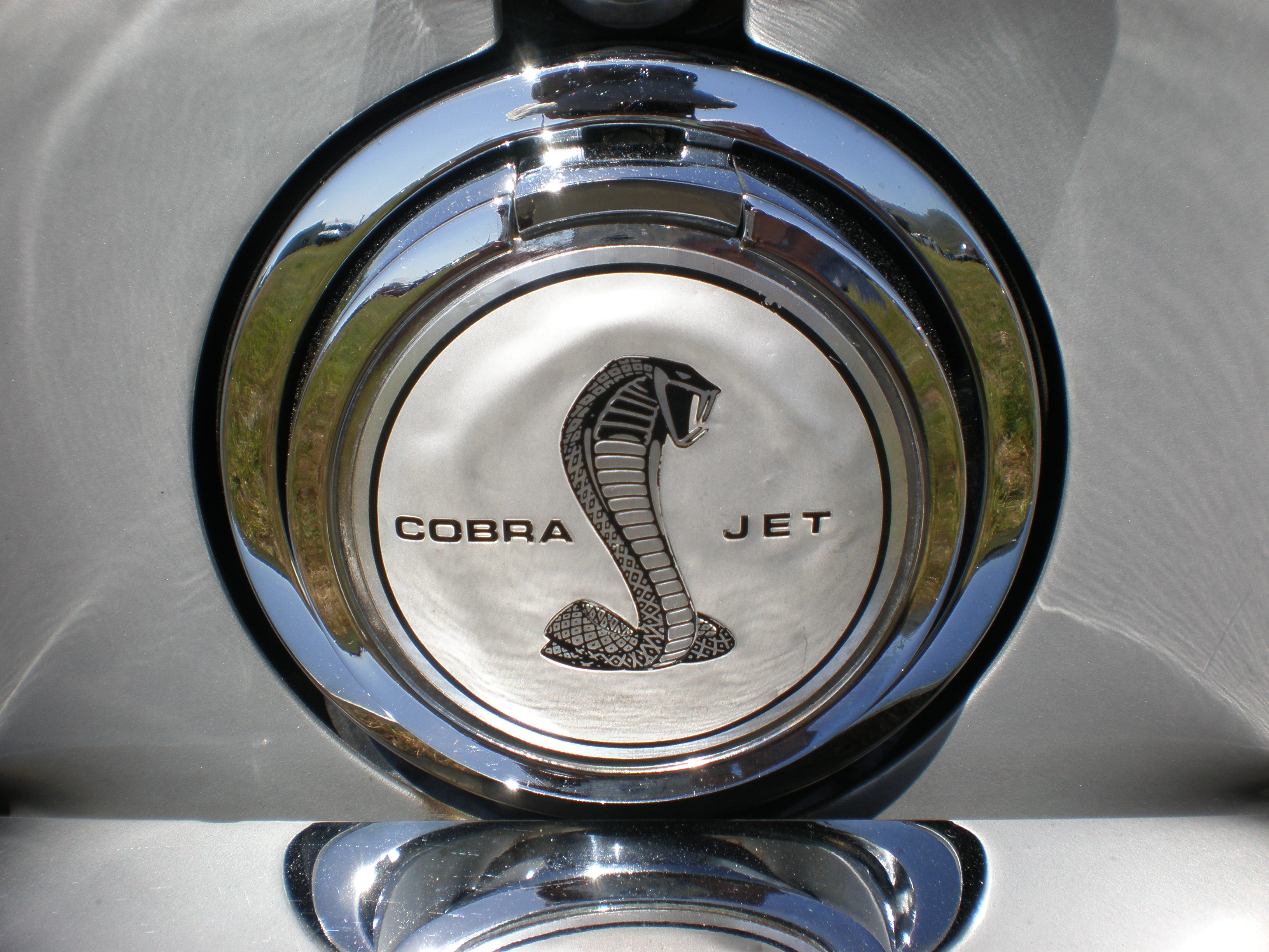 The badge of a 1968 Shelby Mustang GT500KR at the Pacific Coast Dream Machines vehicle show at the Half Moon Bay Airport in Half Moon Bay, California